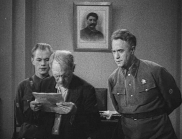 Frame from "Oshibka inzhenera Kochina" ("The mistake of engineer Kochin")